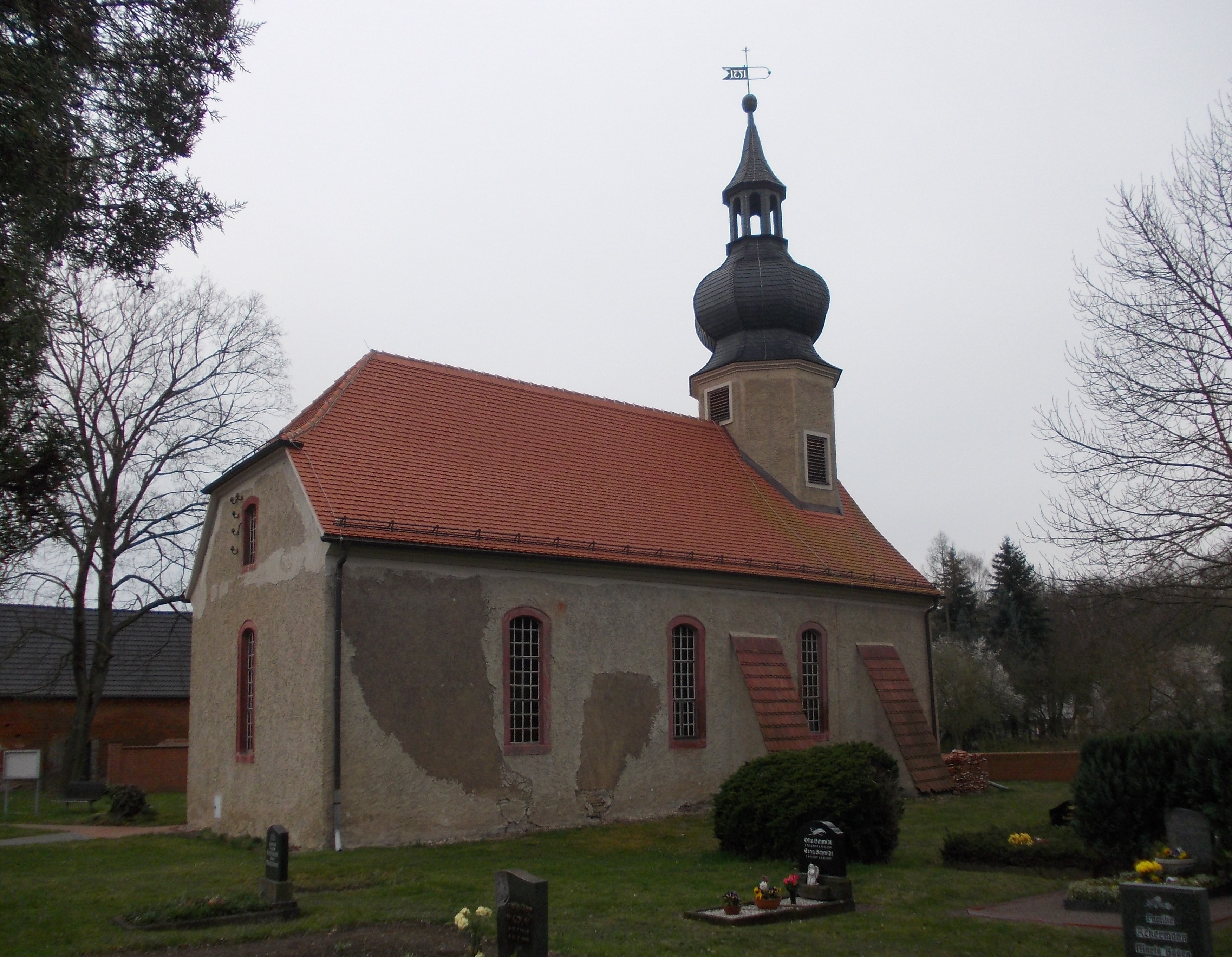 Burgliebenau church (Schkopau, district: Saalekreis, Saxony-Anhalt)